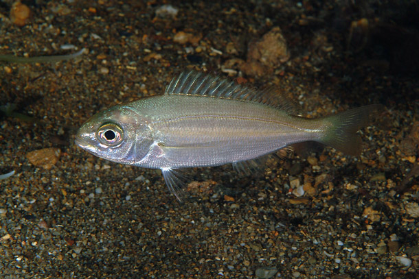 Pagellus acarne photographed near Tuscany coast. Photo by Stefano Guerrieri.